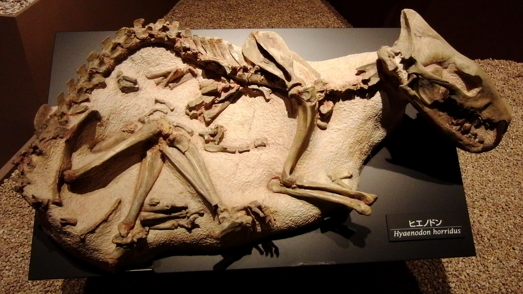 Fossil of Hyaenodon horridus. Exhibit in the National Museum of Nature and Science, Tokyo, Japan.